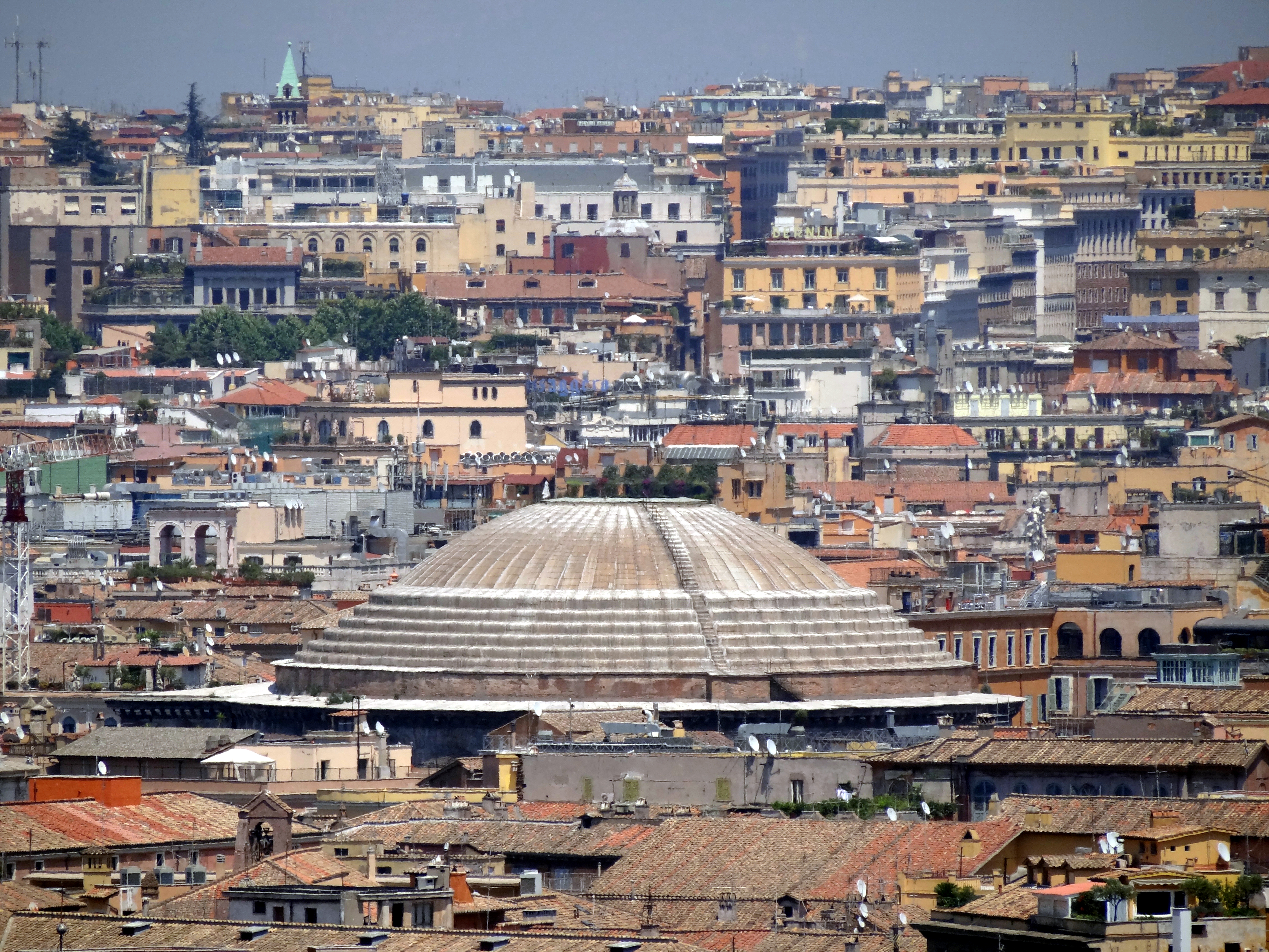 The roof of the Pantheon as seen from the hill of Gianicolo (Janiculum)